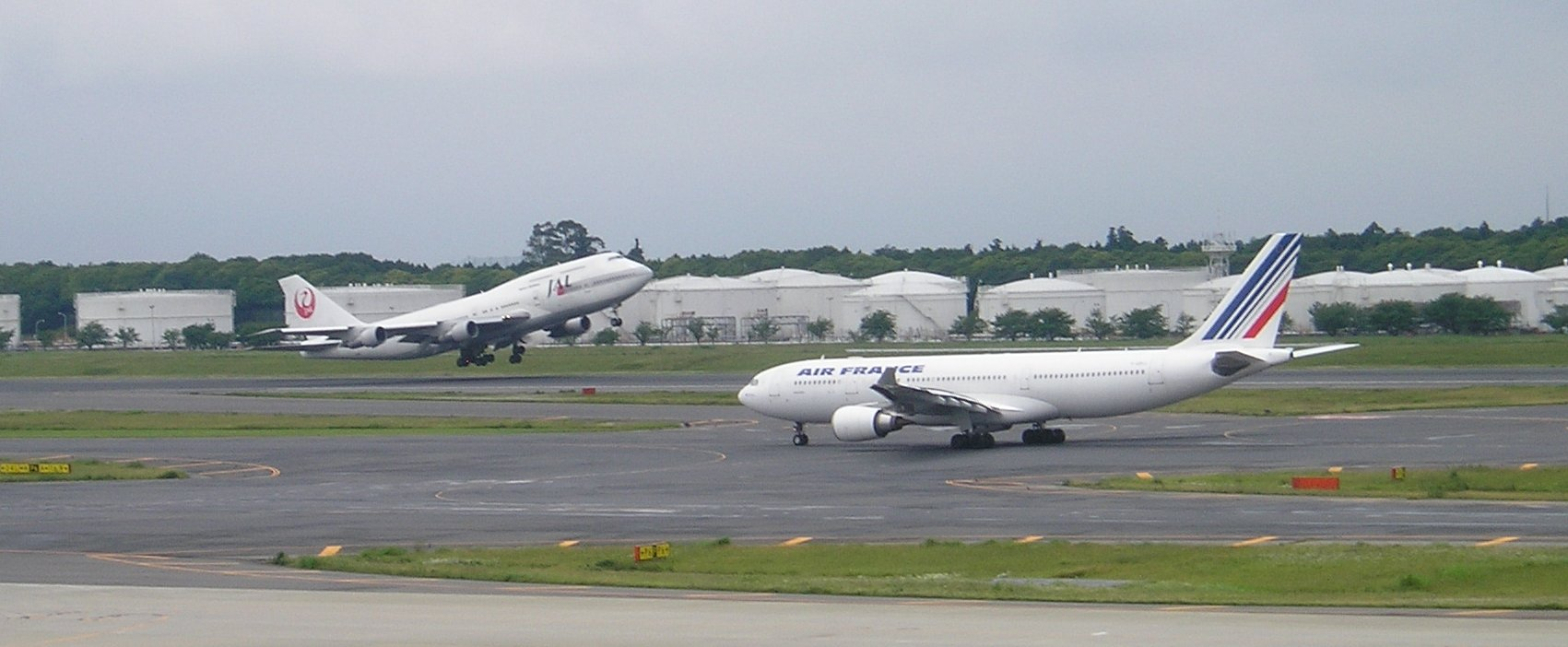 Pic Taken @ Tokyo Narita Intl. Airport